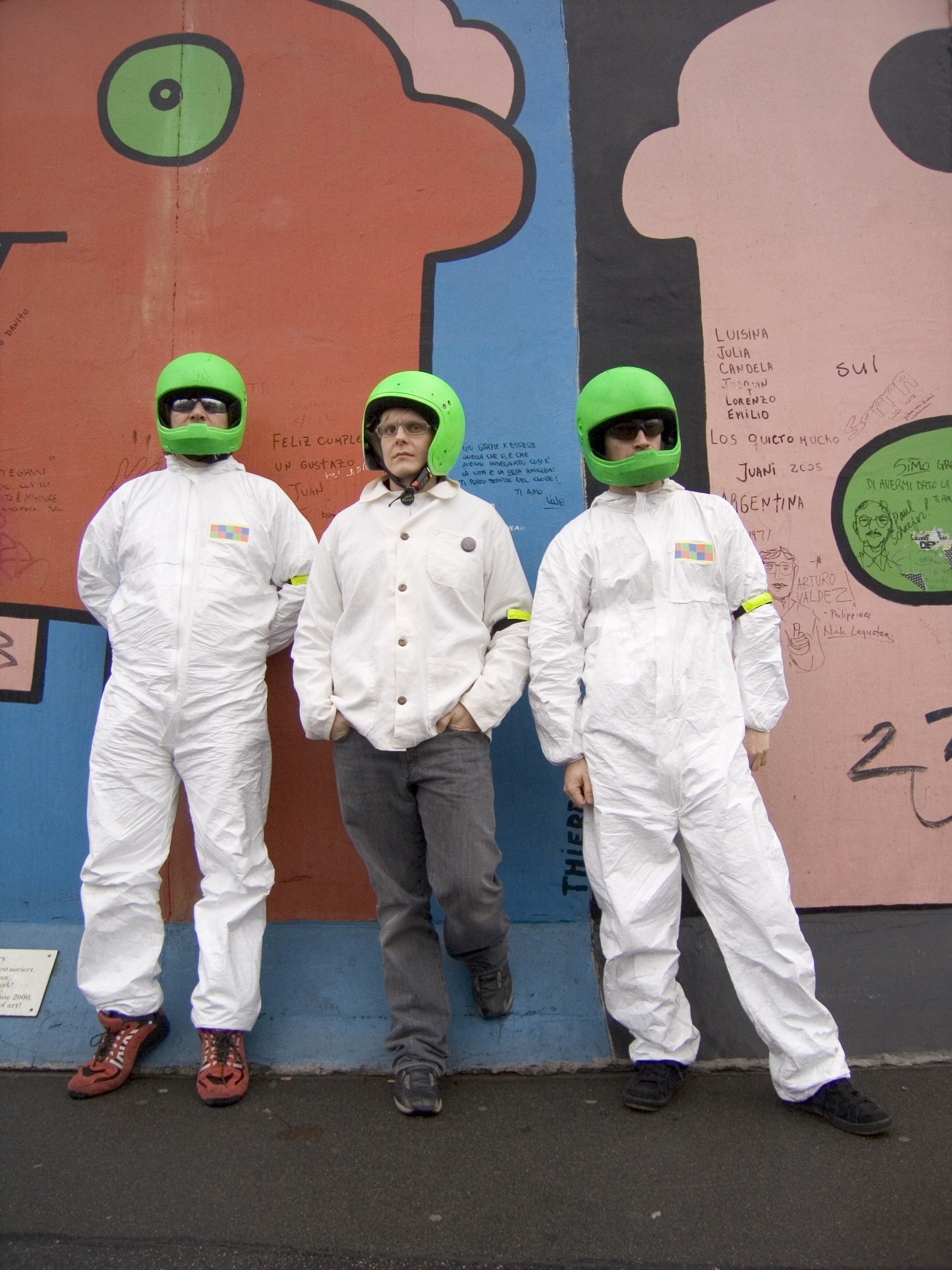 Desert Planet in Berlin. Jukka Tarkiainen, Antti Hovila, Jari Mikkola